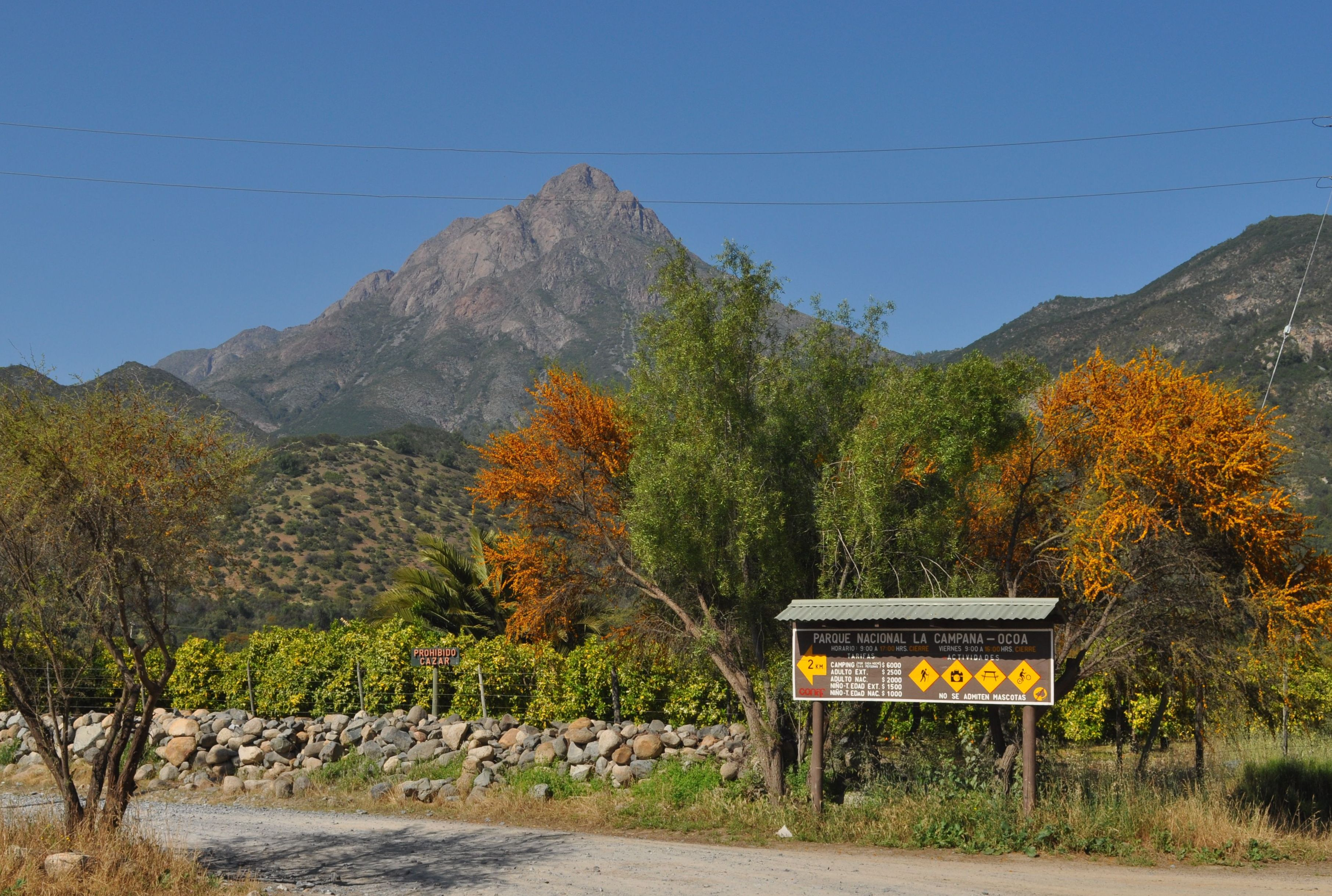 La Campana National Park in the Valparaiso Region, Chile. Access to the Palmas de Ocoa area, with palm forests of Jubaea chilensis.